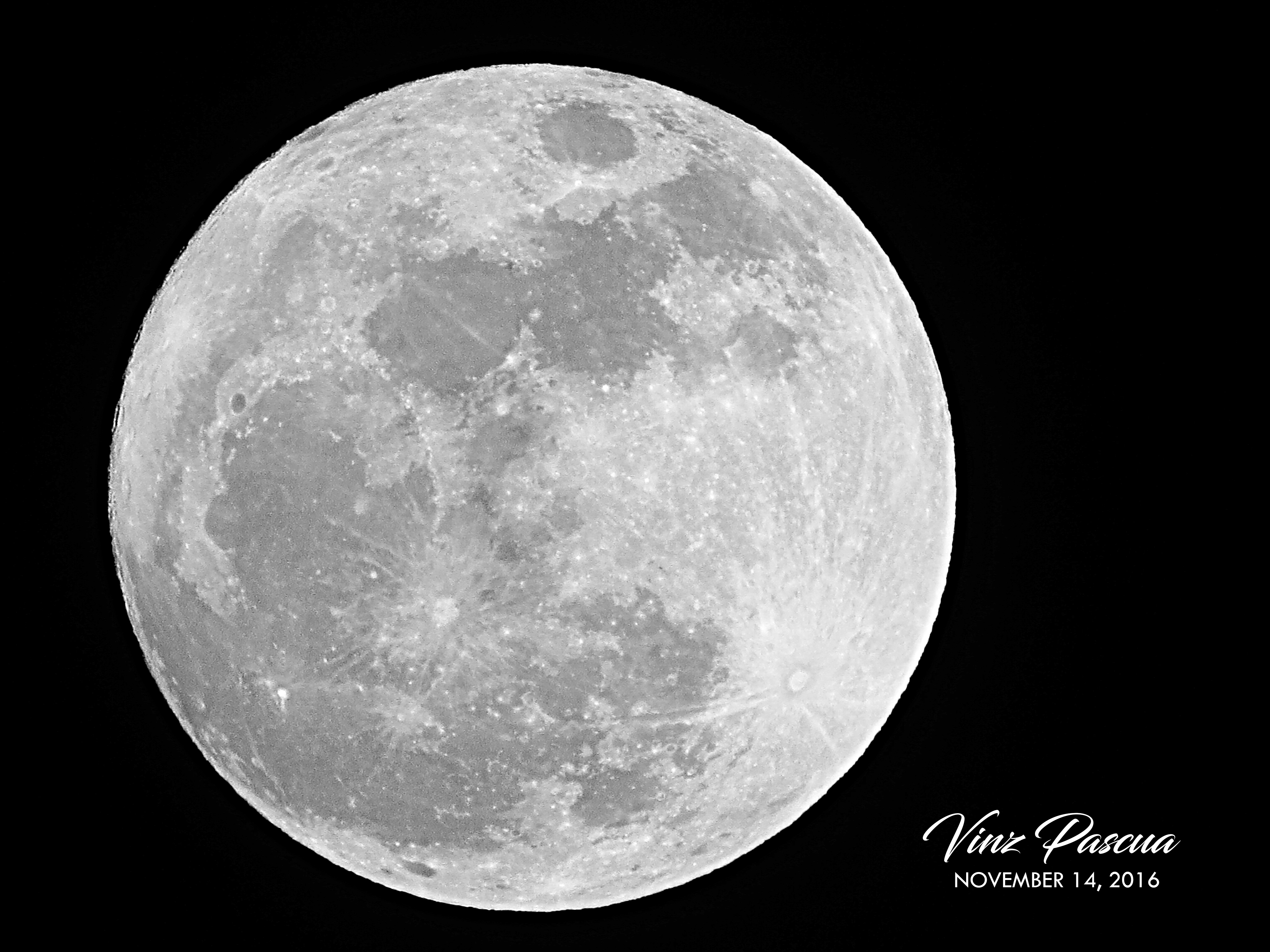 Monday, November 14, 2016 8:54 PM